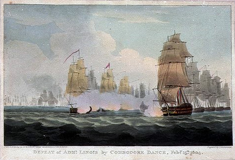 Defeat of Adml. Linois by Commodore Dance, Feby. 15th. 1804: this was created, engraved, and sold on 20 September 1804.[1]